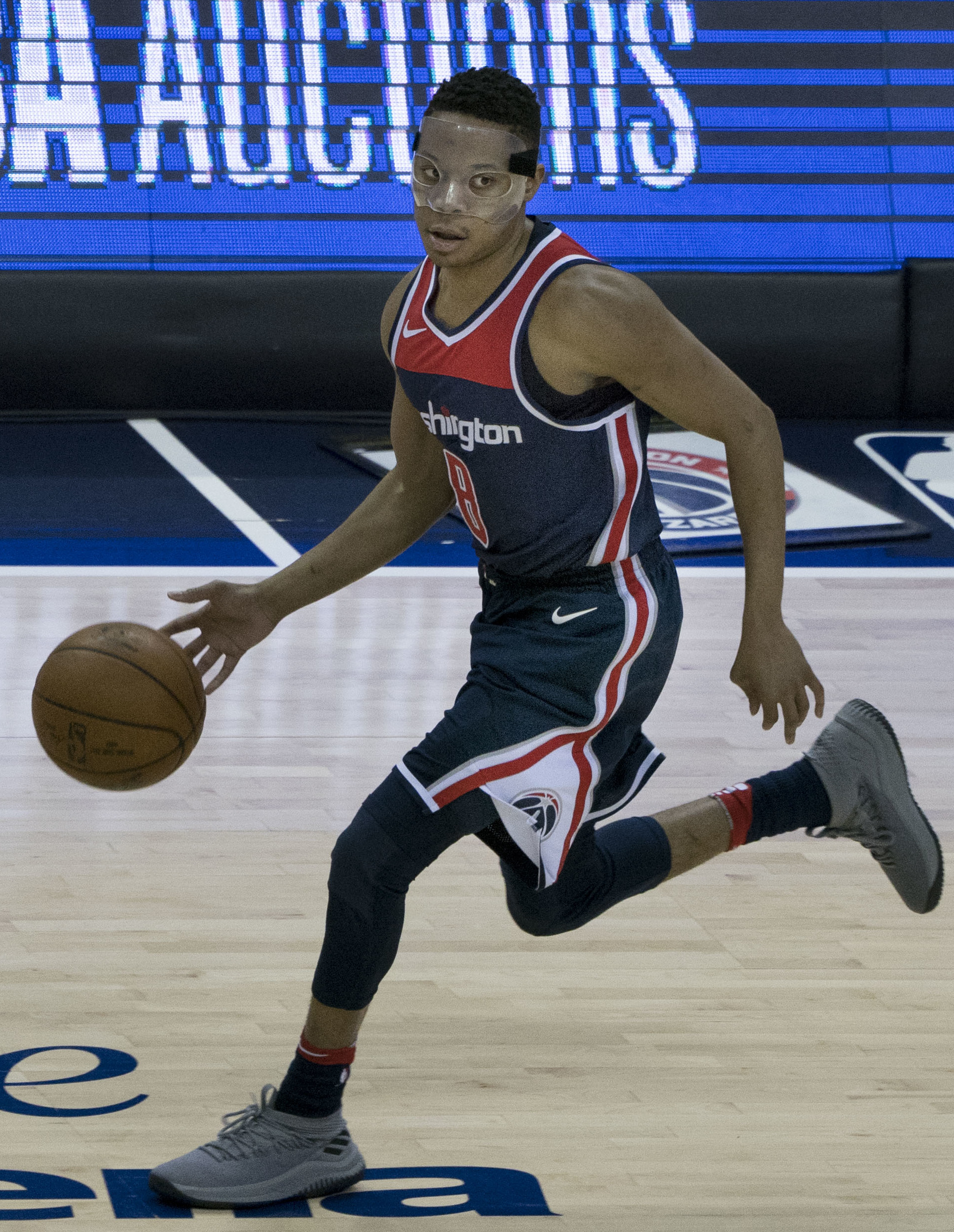 76ers at Wizards 2/25/18